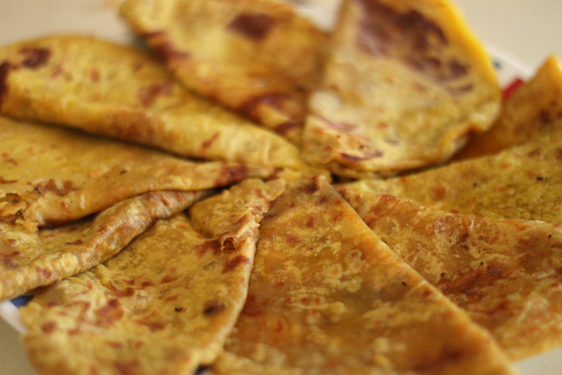 Puran Poli (also known as Bobbattu) (Marathi: पुरणपोळी or पुरणाची पोळी, Konkani: पुरणपोळी or ಉಬ್ಬಟ್ಟಿ, ಹೋಳಿಗೆ, Gujarati: પોળી, Kannada: ಹೋಳಿಗೆ or ಒಬ್ಬಟ್ಟು, Telugu: బొబ్బట్టు , Tamil: போளி) is a traditional type of sweet flatbread made in India in the states of Maharashtra, Gujarat, Karnataka, Tamil Nadu, Andhra Pradesh and Goa. From: Puran Poli